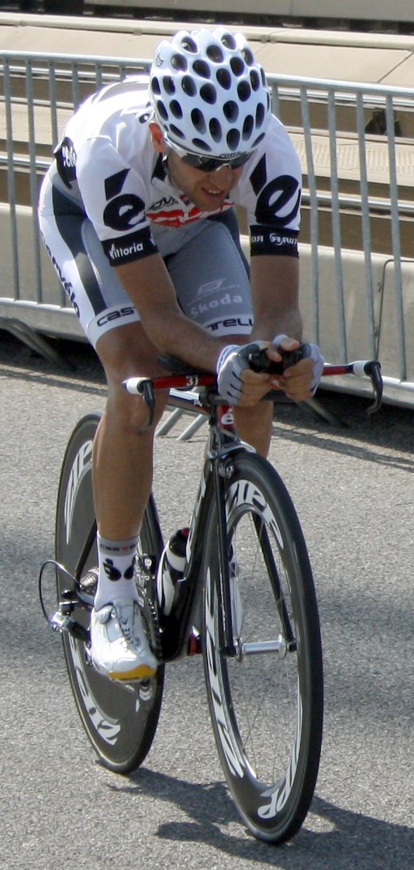 Carlos Sastre training for the prologue of the 2010 Tour de France in Rotterdam